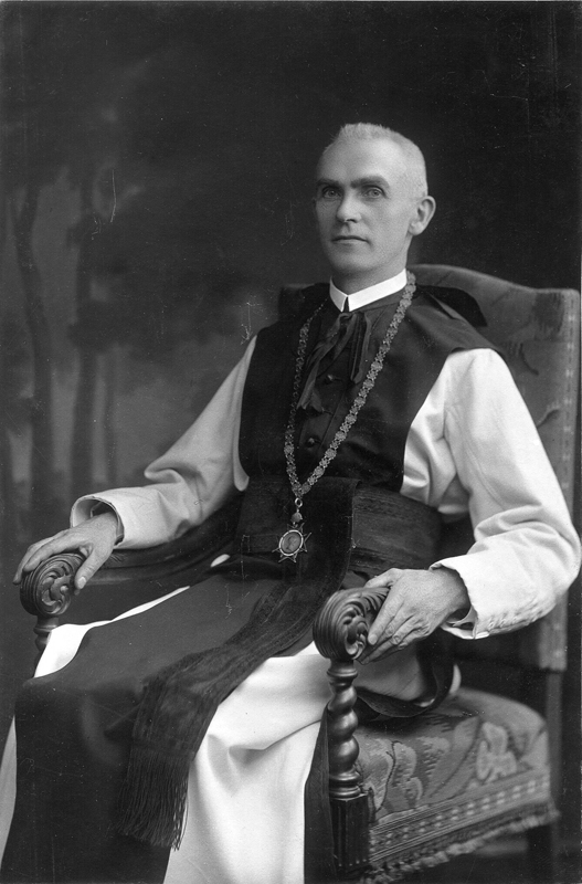 Photo of Remig Békefi